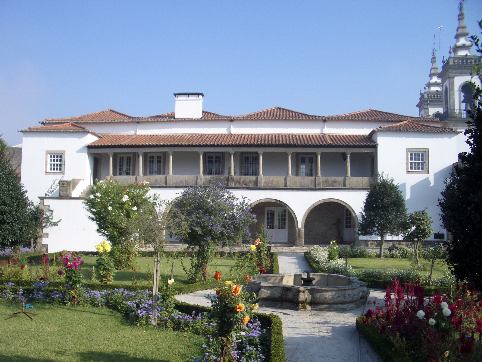 Valença, in the north of Portugal